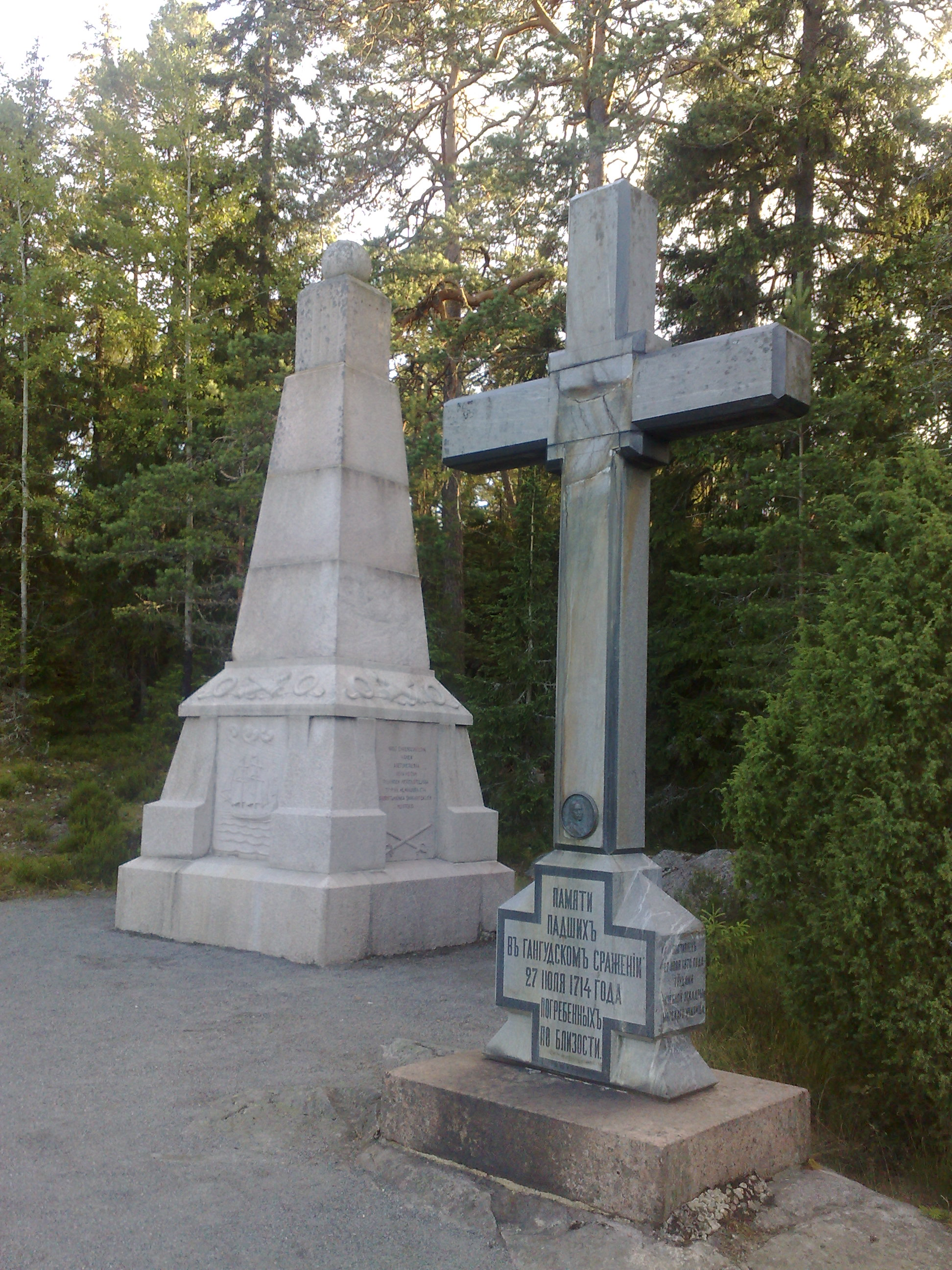 Russian cross and Finnish memorial at the place of Gangut naval battle near Hanko in Finland